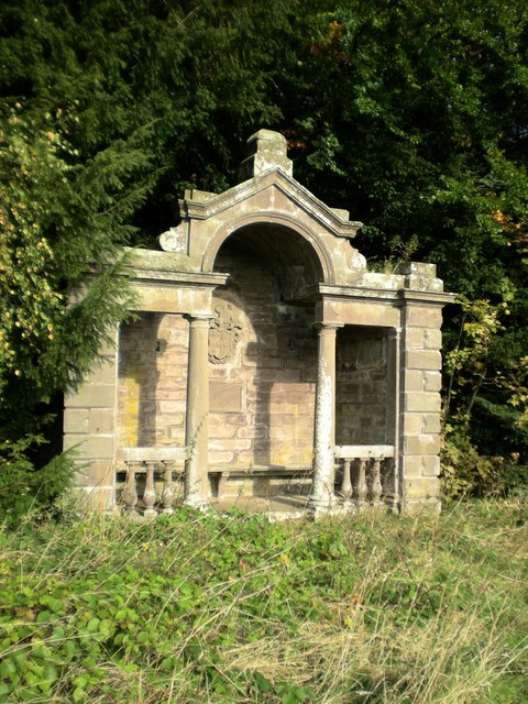 Inchbrakie House Monument This monument was created out of stones from Inchbrakie house, a fine mansion built in 1736 and demolished in 1888. The monument is on the site of the original house.